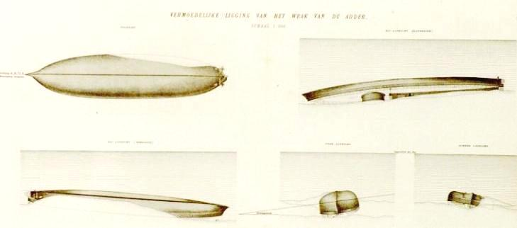 Vermoedelijke ligging van de adder